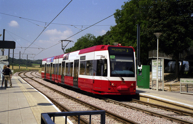 Gravel Hill tram stop Car 2530 eastbound. This stop is heavily used by students at the very large John Ruskin College, which can be accessed by walking about 200 years along a pleasant tree-lined path, without crossing any motor roads.